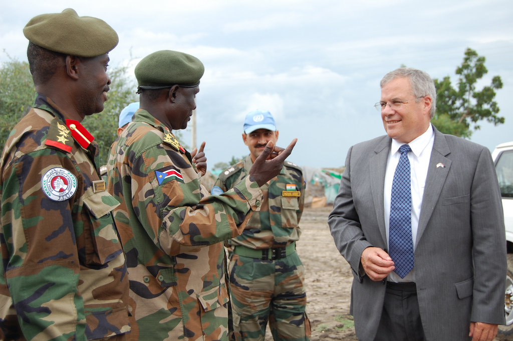 Special Envoy Gration discusses security issues with members of a Joint Integrated Unit (JIU) in Malakal, Southern Sudan.